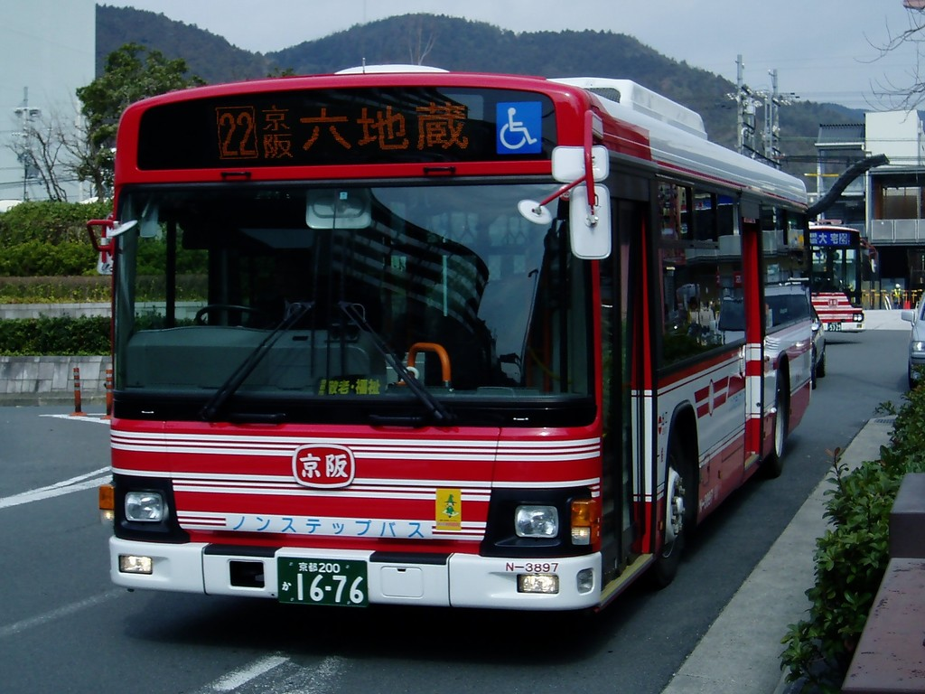 Hino Blueribbon2 use for Keihan-Bus on the area of YAMASHINA Office,Kyoto City(Yamashina ward)